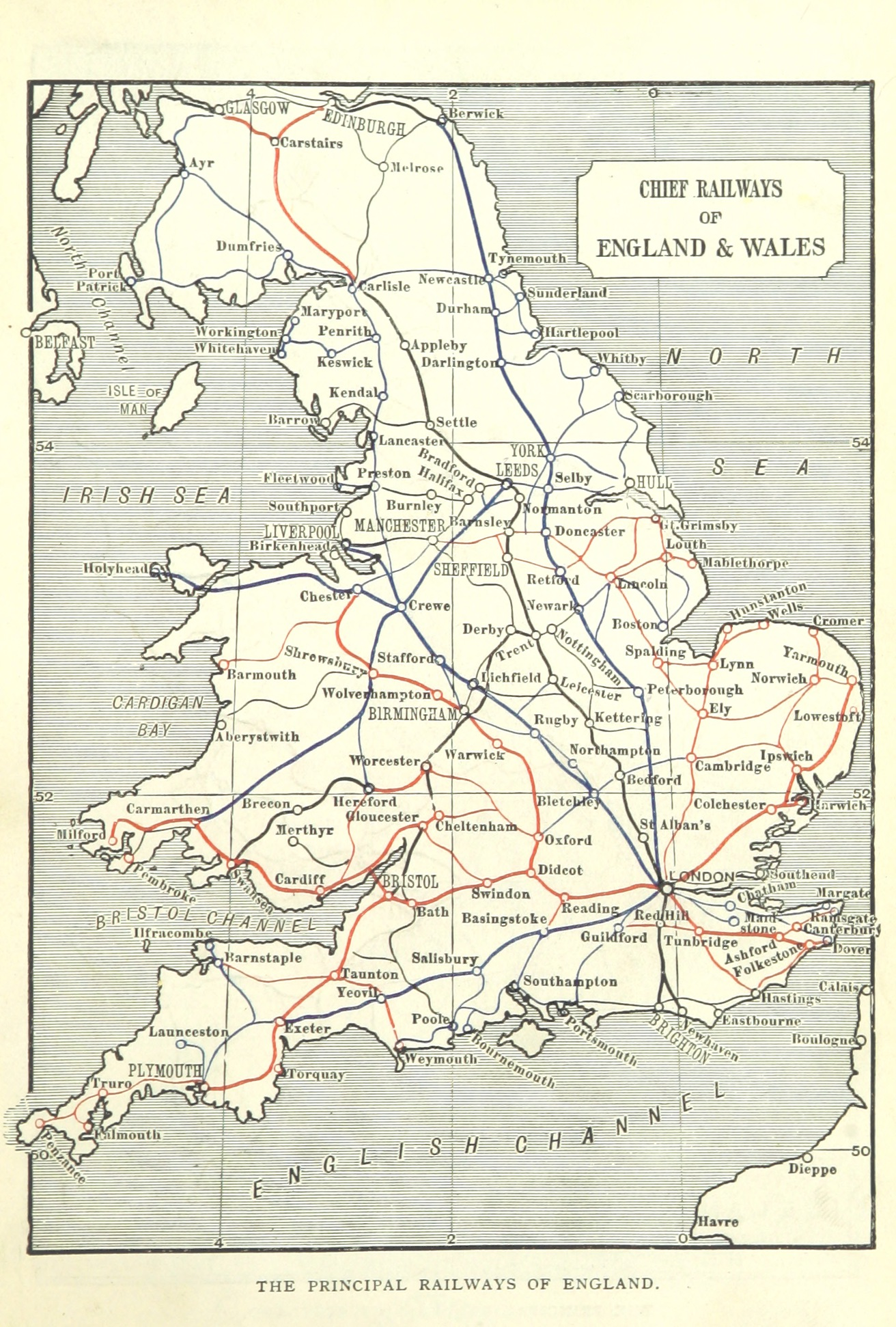 View this map on the BL Georeferencer service. Image taken from: Title: "Pitman's Commercial Geography of the World" Author: PITMAN, Isaac - Sir Shelfmark: "British Library HMNTS 10004.bbb.34." Page: 153 Place of Publishing: London Date of Publishing: 1898 Publisher: Sir I. Pitman & Sons Issuance: monographic Identifier: 002926265 Explore: Find this item in the British Library catalogue, 'Explore'. Open the page in the British Library's itemViewer (page image 153) Download the PDF for this book Image found on book scan 153 (NB not a pagenumber)Download the OCR-derived text for this volume: (plain text) or (json) Click here to see all the illustrations in this book and click here to browse other illustrations published in books in the same year. Order a higher quality version from here.